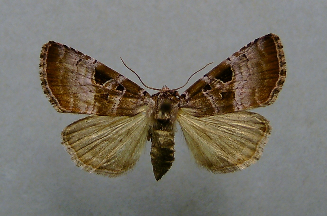 Eucarta amethystina, Bamberg, Germany